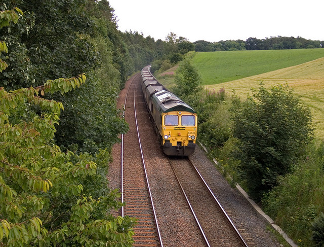 Railway line passing under the road to Bellfield Farm A northbound train of empty coal wagons. It is probably heading for New Cumnock, where it will collect a load of opencast-mined coal bound for a Yorkshire power station.